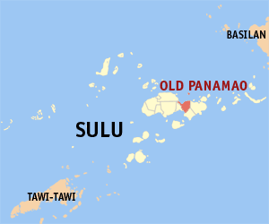 Map of the Sulu showing the location of Panamao